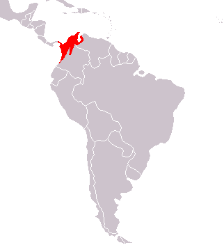 Range of the lesser capybara (Hydrochoerus isthmius) is shown in red (self made with Image:BlankMap-World.png).